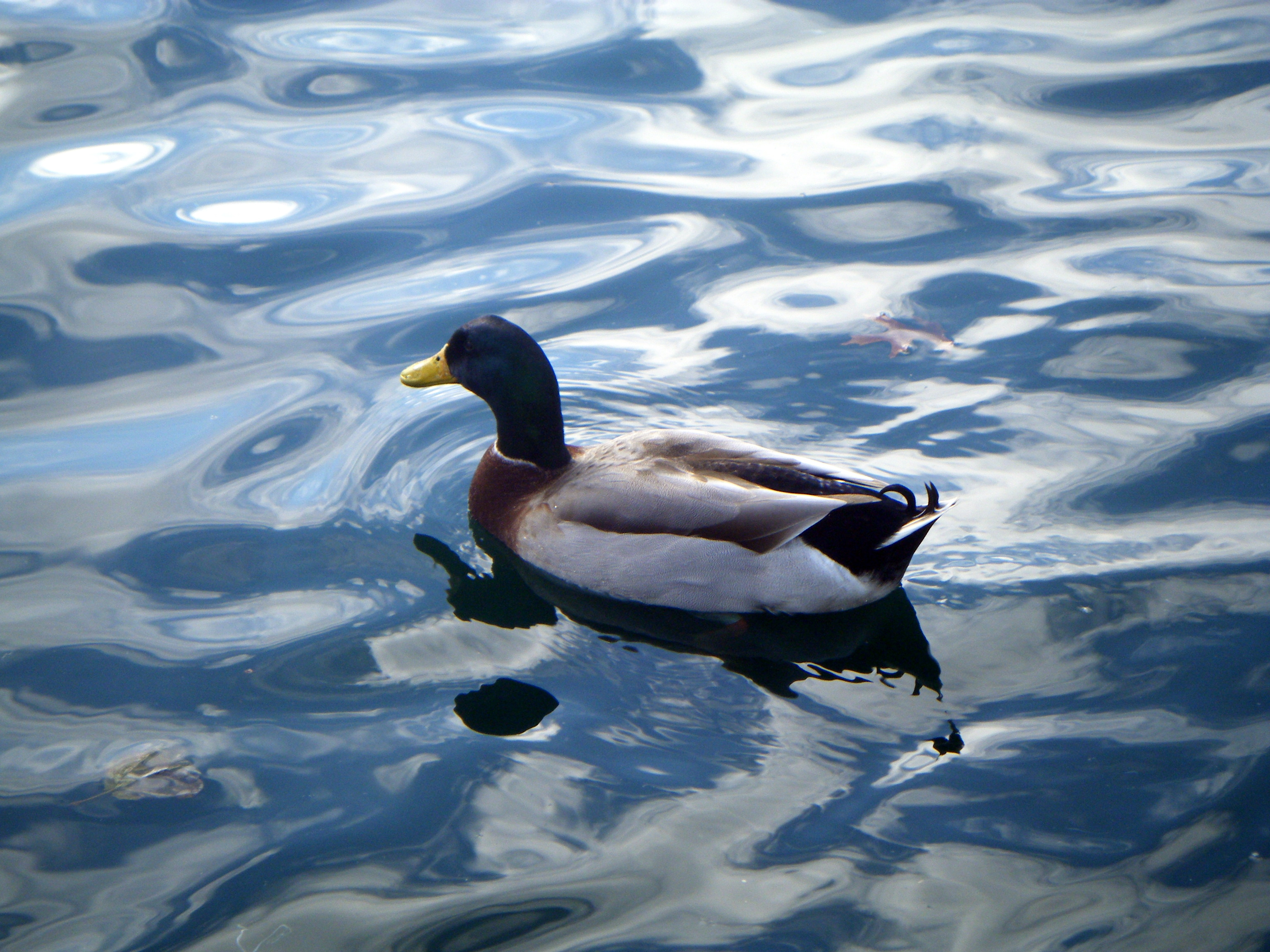 A duck in a pond in Orange County, California.